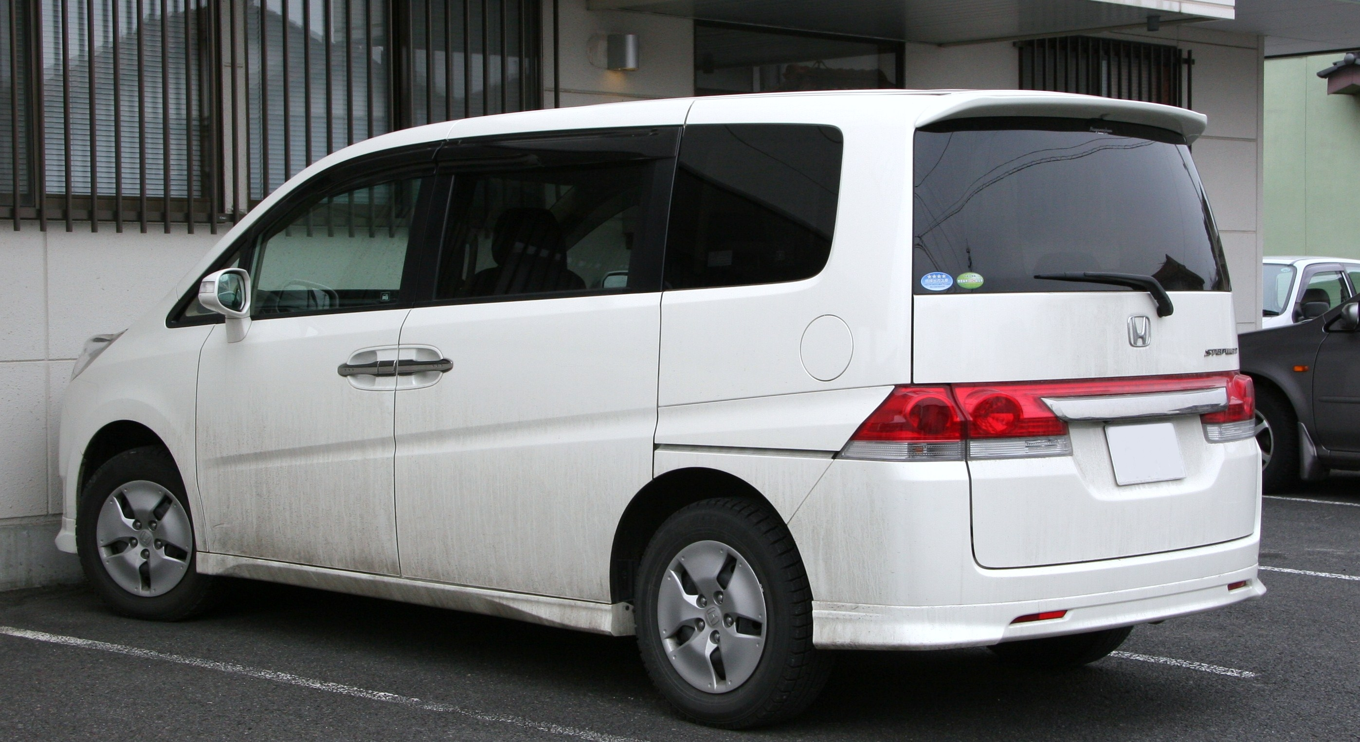 Honda Step WGN